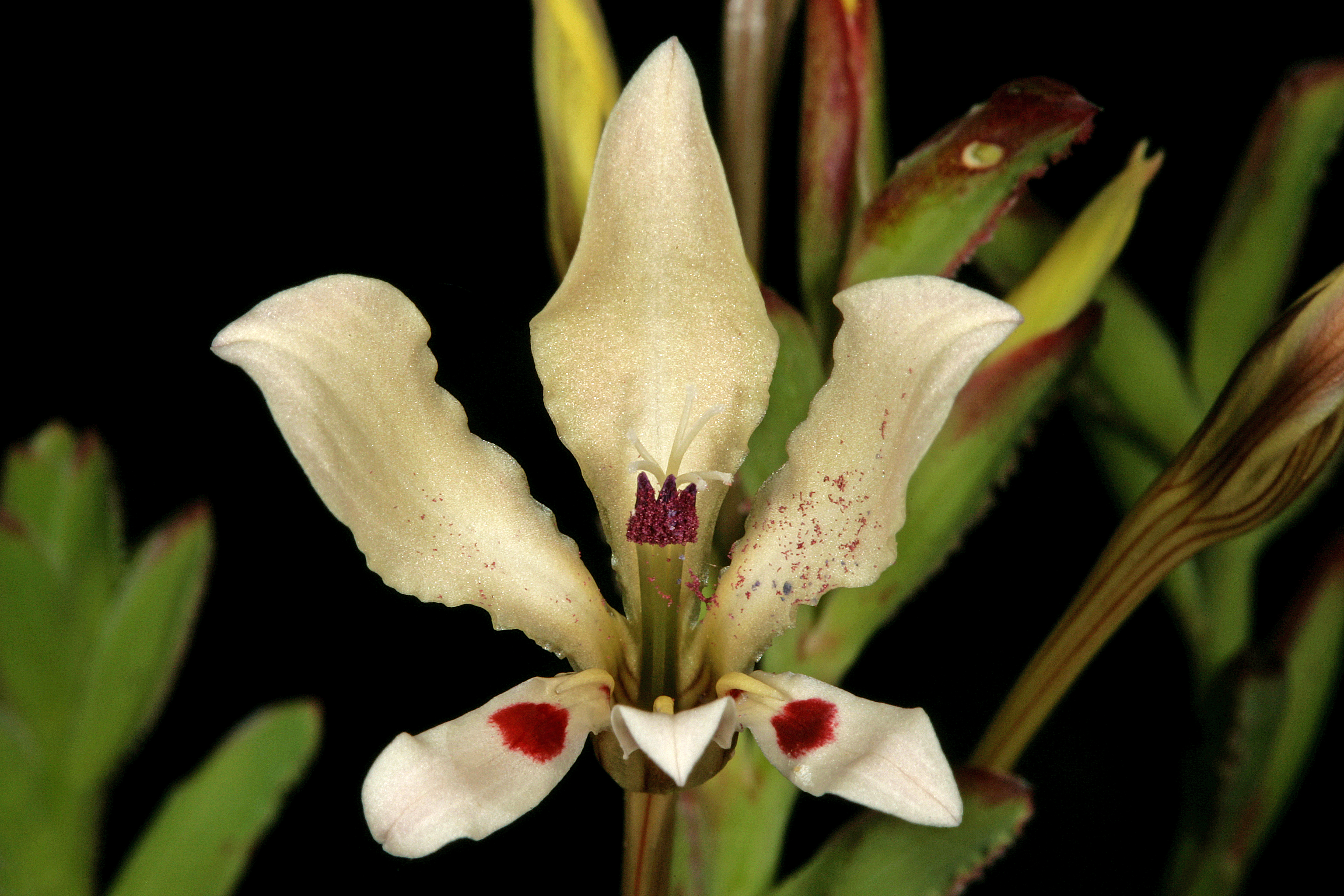 Lapeirousia fabricii, flower; note pinkish brown pollen, and three lower tepal lobes each with a median, claw-like tooth at the base. Ramskop Nature Reserve, Clanwilliam, Western Cape, South Africa